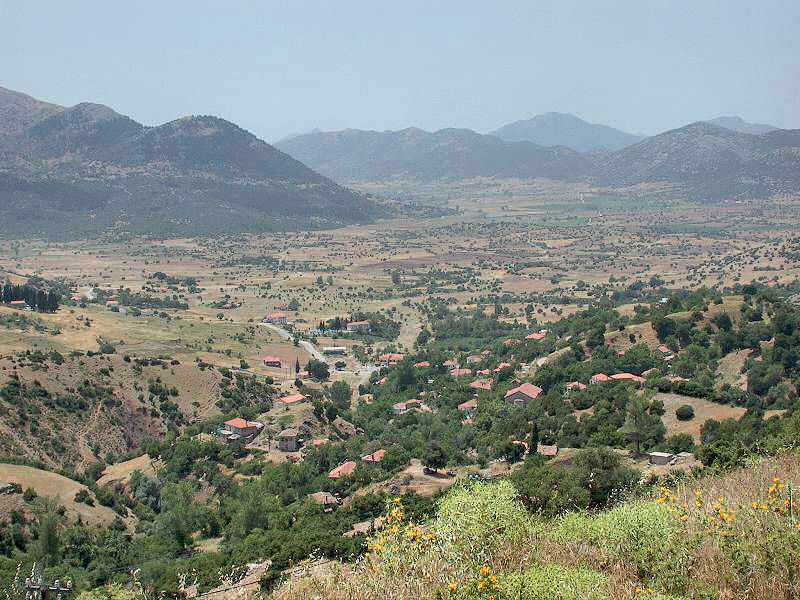 polje (Flat depression without surface drainage). Near Kato Lousi, north of Kastria, Achaia, Greece.